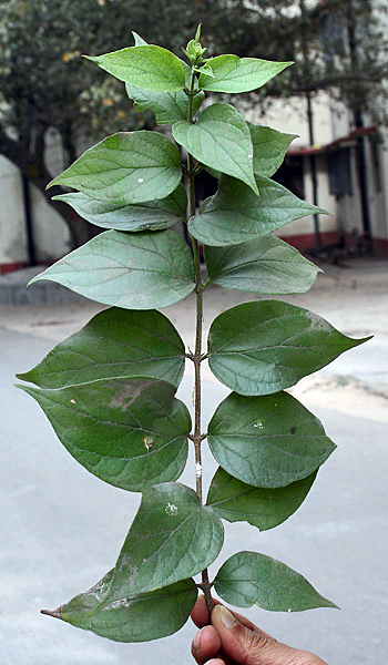 Leaves of the Harshingar or Parijat plant (Nyctanthes arbor-tristis) in Kolkata, West Bengal, India.